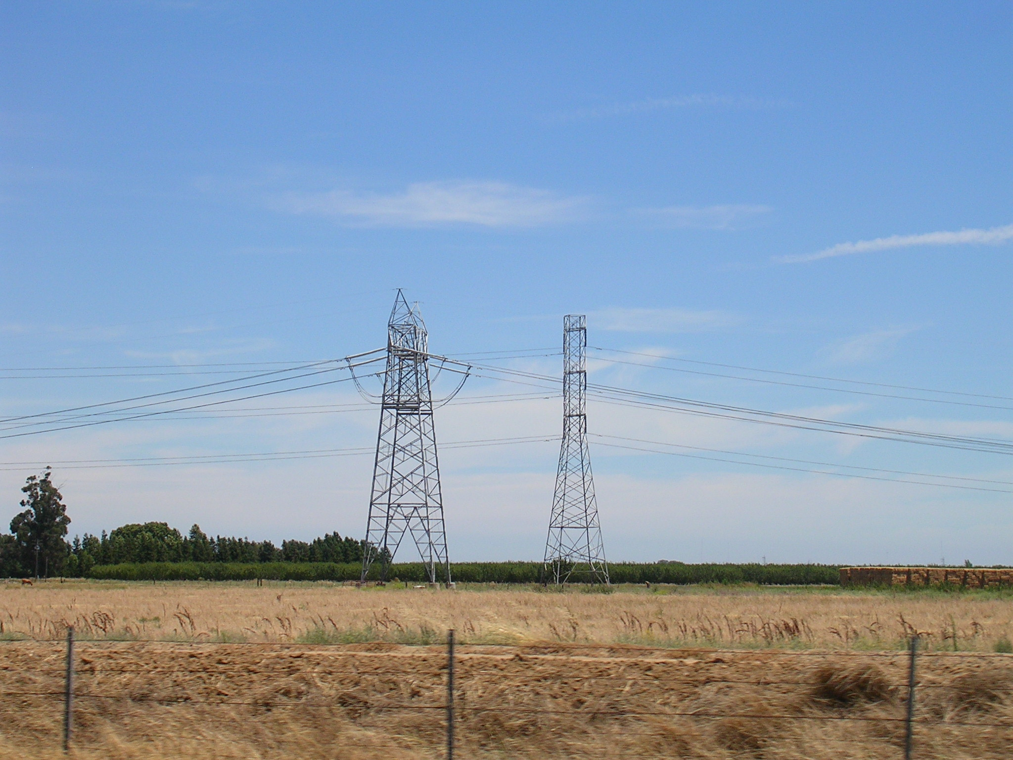 Path 15: A picture of a single-circuit Pacific Gas and Electric 500 kV power line with a dual-circuit 230 kV line right next to it. PG&E 500 kV line about to cross Interstate 80 as it leaves the Vaca-Dixon substation located just north of I-80 near Vacaville. The 230 kV line (smaller tower to the right) crosses I-80 as well after leaving the substation. This section of the transmission line between the Table Mountain Substation (near Oroville) and the Tesla Substation (near Tracy) is one of the two PG&E 500 kV lines. The lines often run together, but in this area they are split apart. The other 500 kV line crosses I-80 east of Davis.